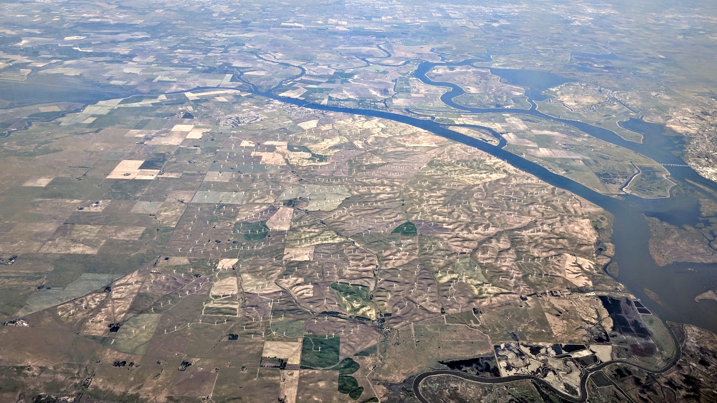 Aerial view from the west of the Shiloh Wind Power Plant (windfarm) in the Montezuma Hills of Solano County, California, USA, close to Bird's Landing and Collinsville, 40 miles (64 km) northeast of San Francisco.